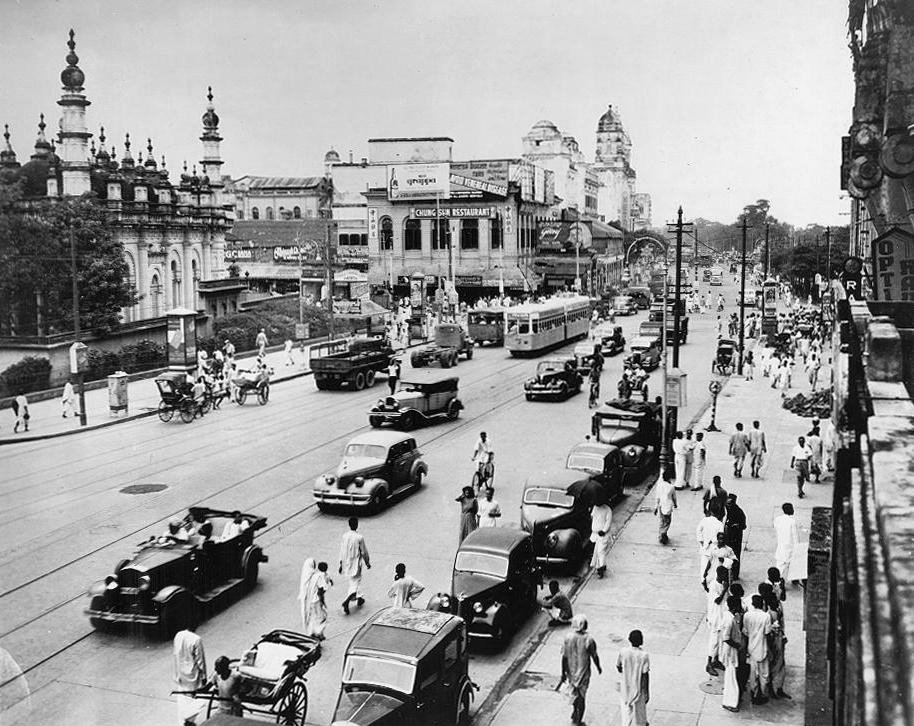 Original description:"Chowringhee Square. The Mohammddan mosque, Juma Masjid, is shown at left. This is actually one of the quiet moments when GI trucks, taxis, bicycles and other modes of transport can move with comparative freedom." The South Asia Section of the Van Pelt Library, University of Pennsylvania recently acquired from a bookdealer a photograph album consisting of 60 photographs of Calcutta taken most likely between 1945-1946. The photographer, Mr. Clyde Waddell, also provided the interesting glosses accompanying each photograph. Several attested copies of this work has emerged including one with a 'title page' held by the Southeastern Louisiana University in Hammond, Louisiana. Mr. Waddell was a military photographer. Many of his captions sound like annotations that would be found in a typical military magazine. The album begins with several general long shots of Calcutta and ends with a picture of dhobi-s (washermen) washing clothes. The text accompanying the last photograph also sounds as if the author intended to finish with that picture of one of the "great mysteries of India." The annotations have been included because of their intrinsic interest not only to the photographs but to a 'typical' American impression of India at this time.